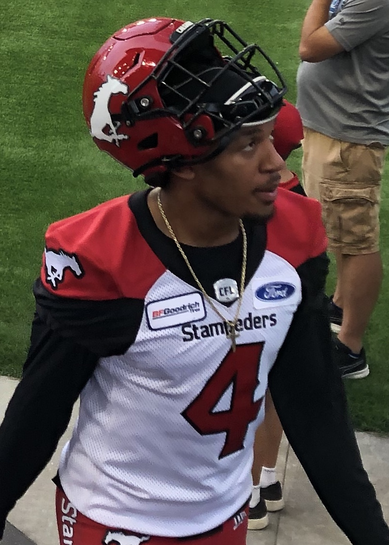 Eric Rogers, receiver for the Calgary Stampeders.